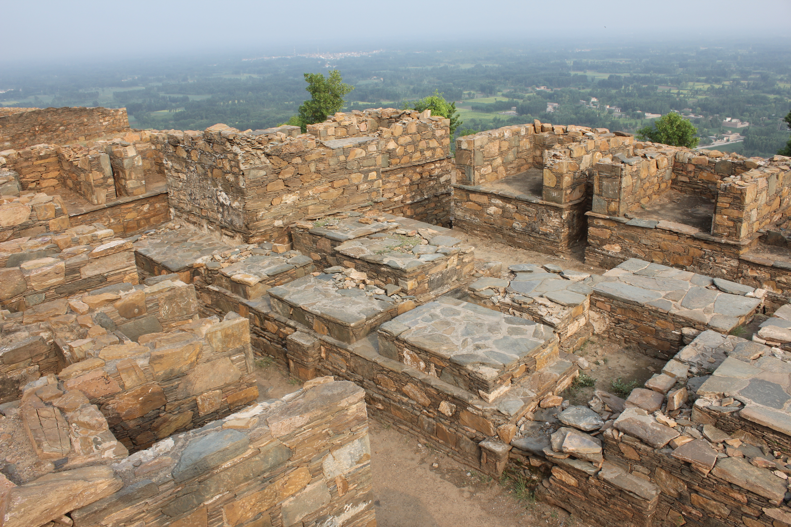 Buddhist ruins This is a photo of a monument in Pakistan identified as the KPK-35